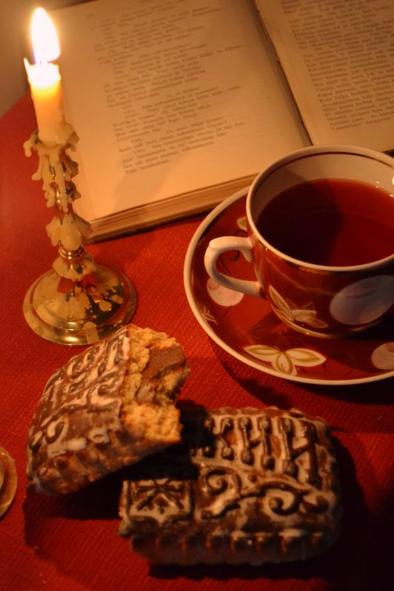 Store bought Tula Pryaniki